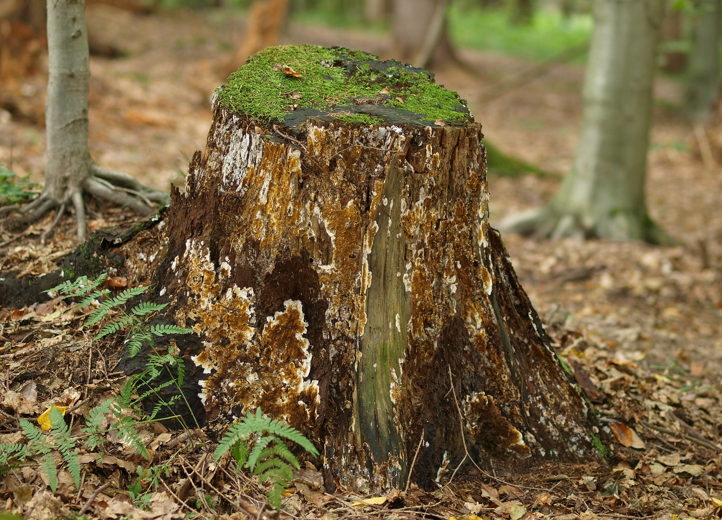 Serpula himantioides at a stock